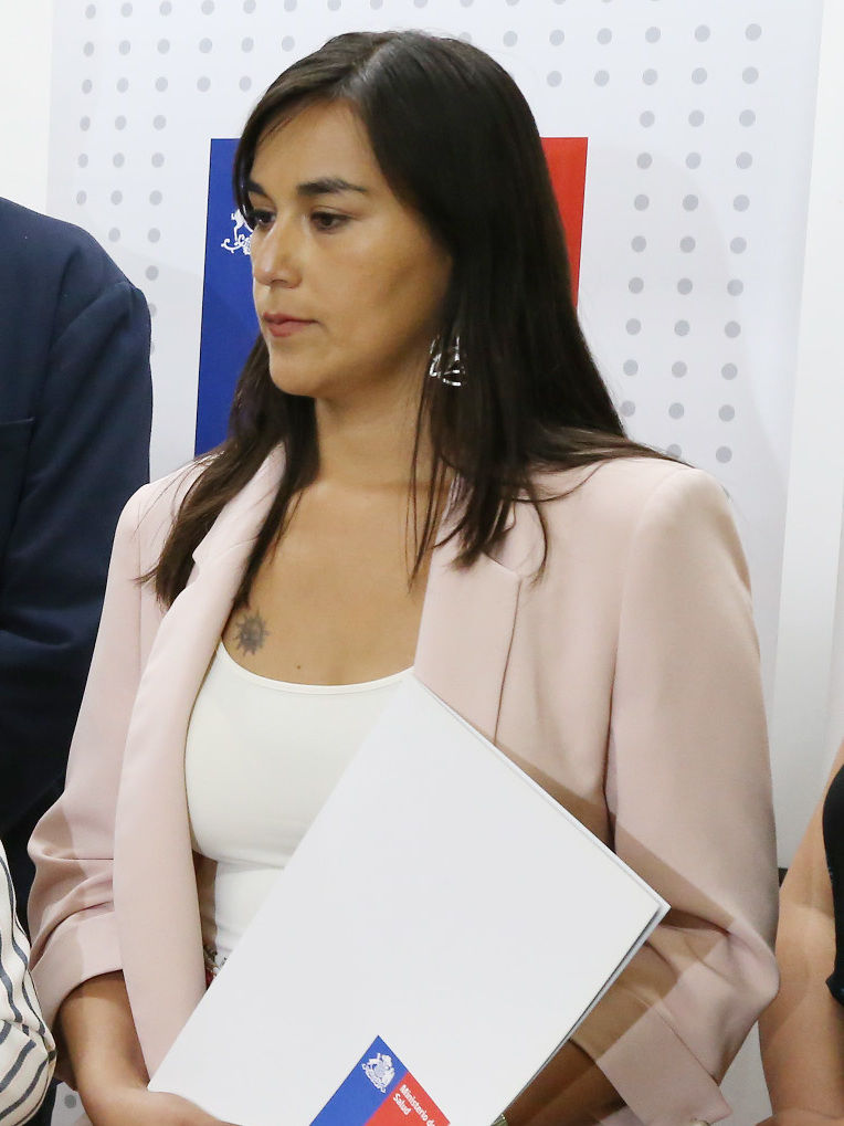 Ministro de Salud presentó proyecto de Ley “Consultorio Seguro” en sede de la Confusam